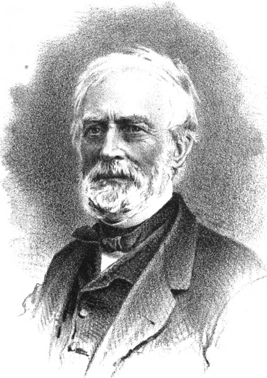 Richard Mott, congressman from Ohio.